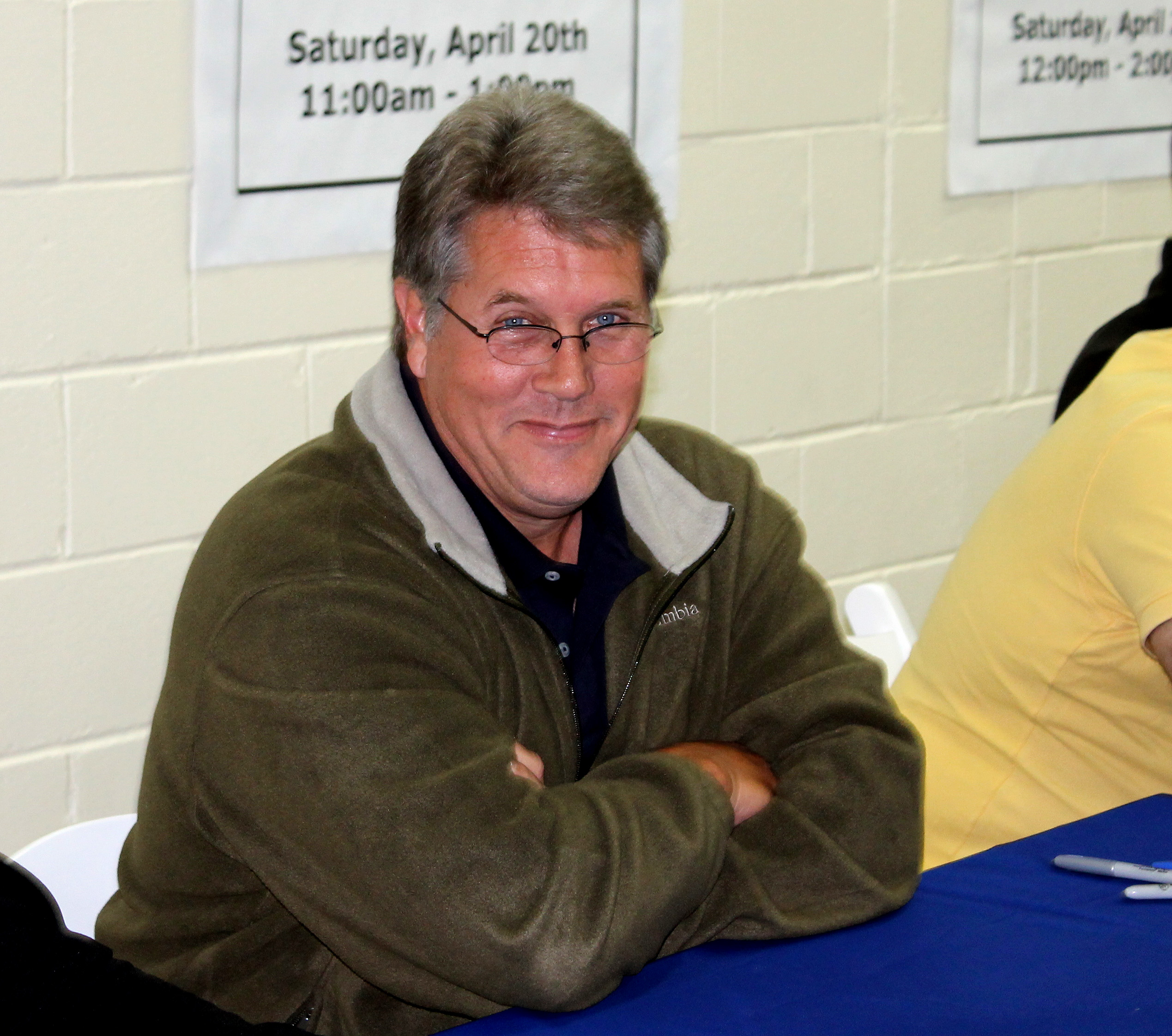 Outfielder for the Padres and Mets in the 1980s. Seen at Hofstra University in the spring of 2013.